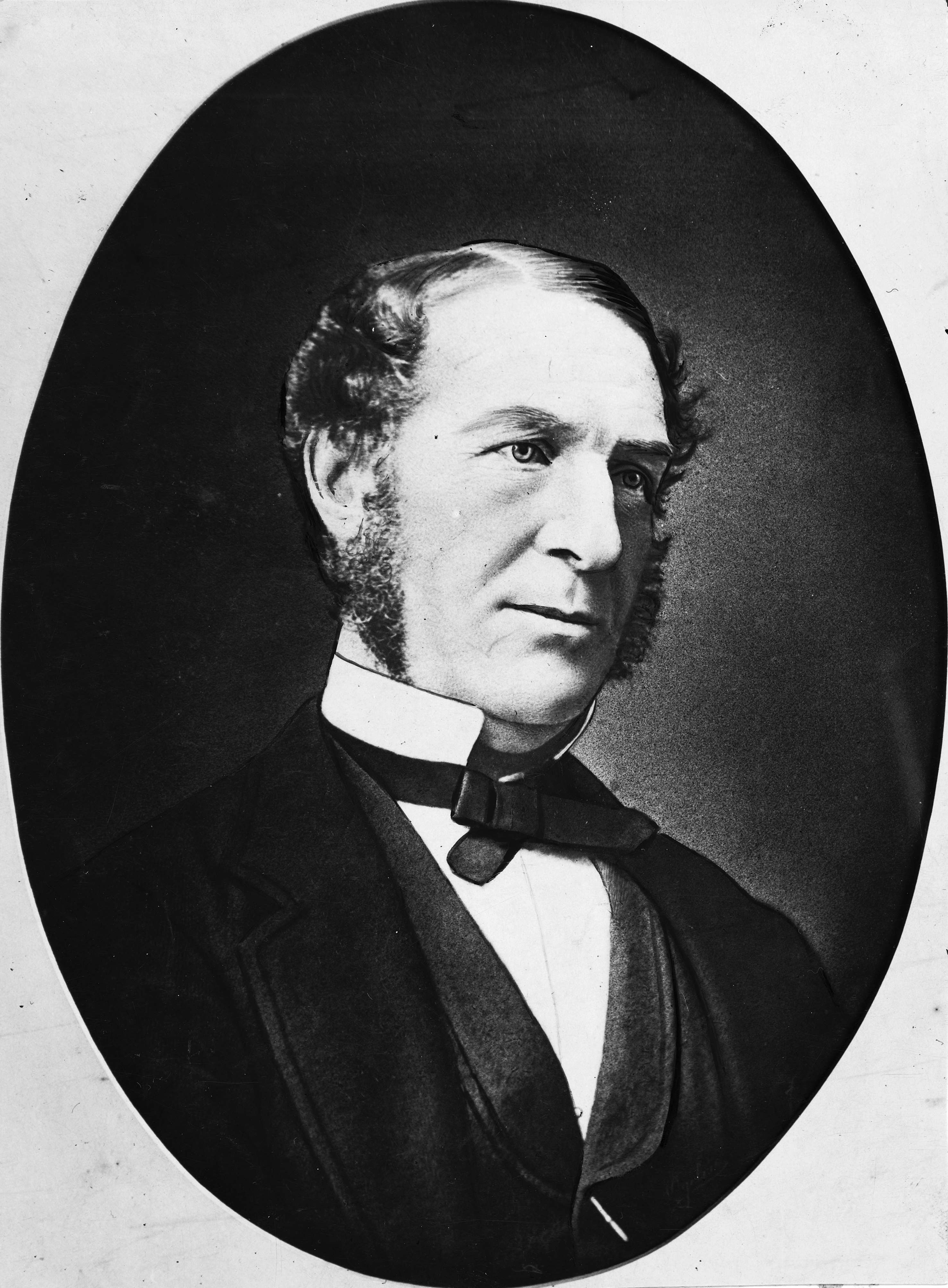 Head and shoulders portrait of William Thomas Locke Travers, circa 1879.